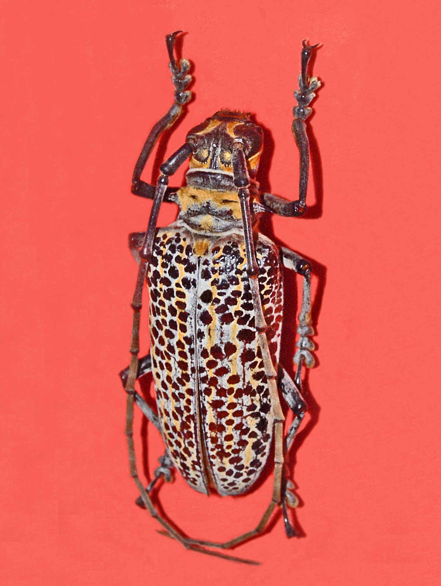 Museum specimen of Rosenbergia rufolineata. On display at the Museo Civico di Storia Naturale di Milano